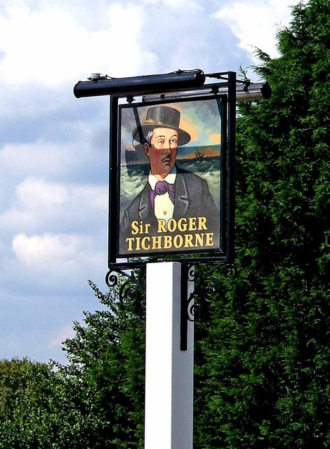 Sir Roger Tichborne pub sign, Alfold Bars. This public house re-opened in April 2009. Unfortunately when photographed the sun was out and the lighting fitment has cast a shadow across Sir Roger's face. However a 2006 photograph by Andy Potter shows this side of the sign and the other, which very unusually is different. The other side shows Arthur Orton, who pretended to Sir Roger, when the latter disappeared at sea. Despite the facts that Sir Roger spoke French fluently and was slim, whereas Arthur Orton spoke no French and was over weight, some people happily accepted him as the genuine article. 243676; 1434655. It seems that in its previous life the pub was a King & Barnes house. The main difference between the two pub sign photos is that the K & B logo, on the top of the sign, had been removed by the time the 2009 photo was taken.